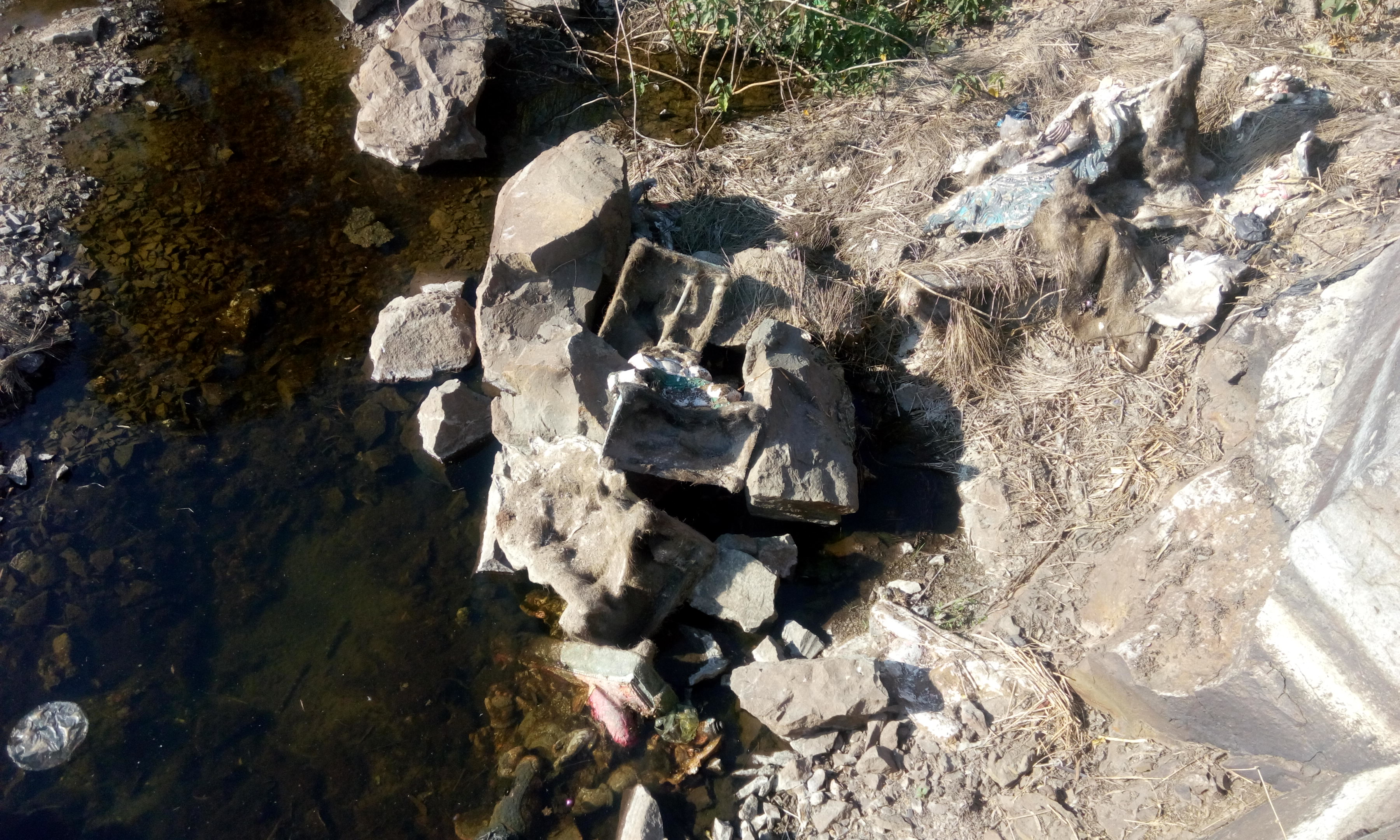 After ganesh idol visarjan water body gets contaminated due to idols toxic paints.